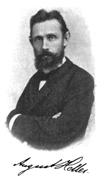 August Heller (1843-1902), hungarian science historian